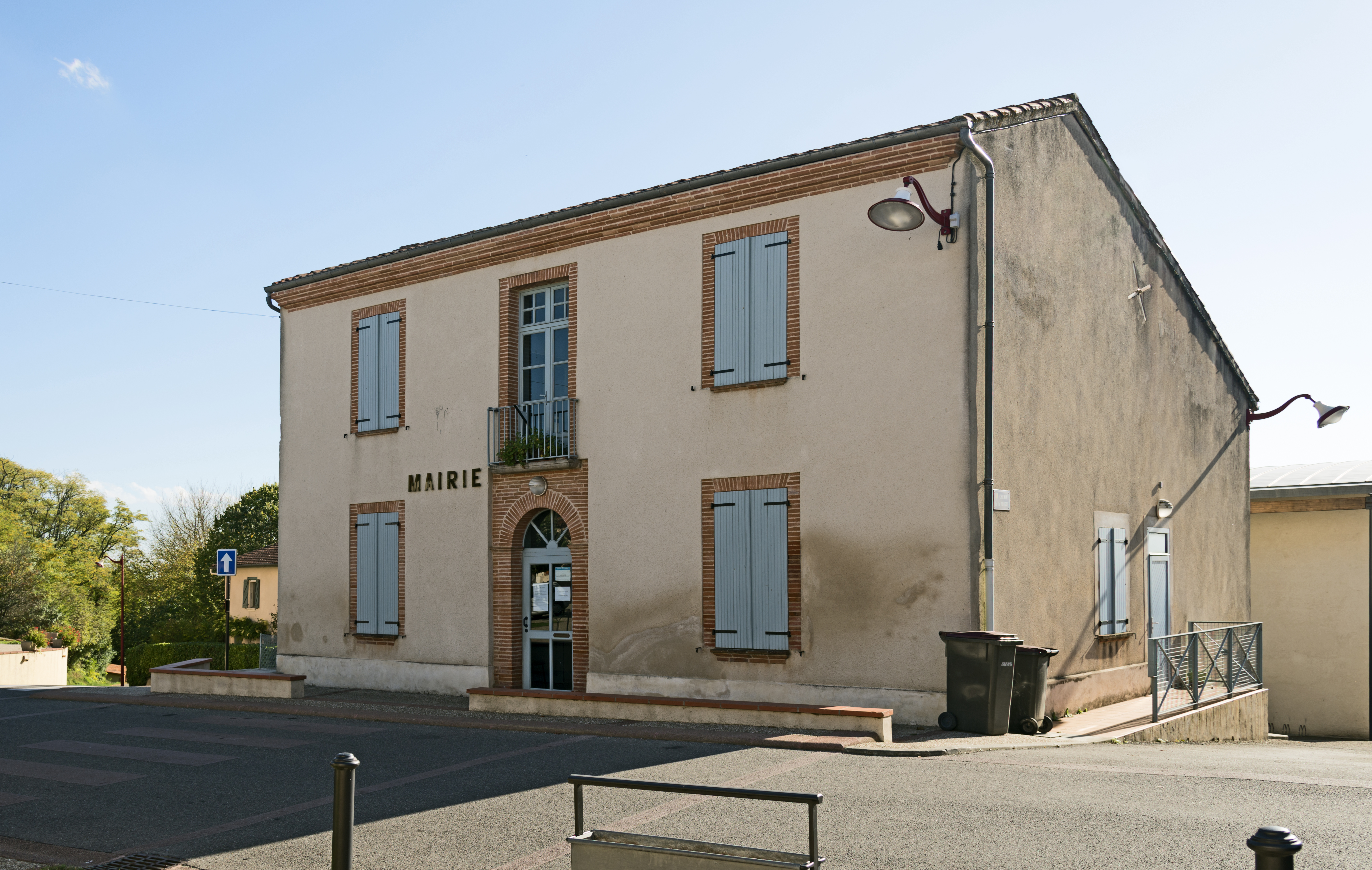 Varennes, Tarn-et-Garonne, France. The facade of the Town Hall.